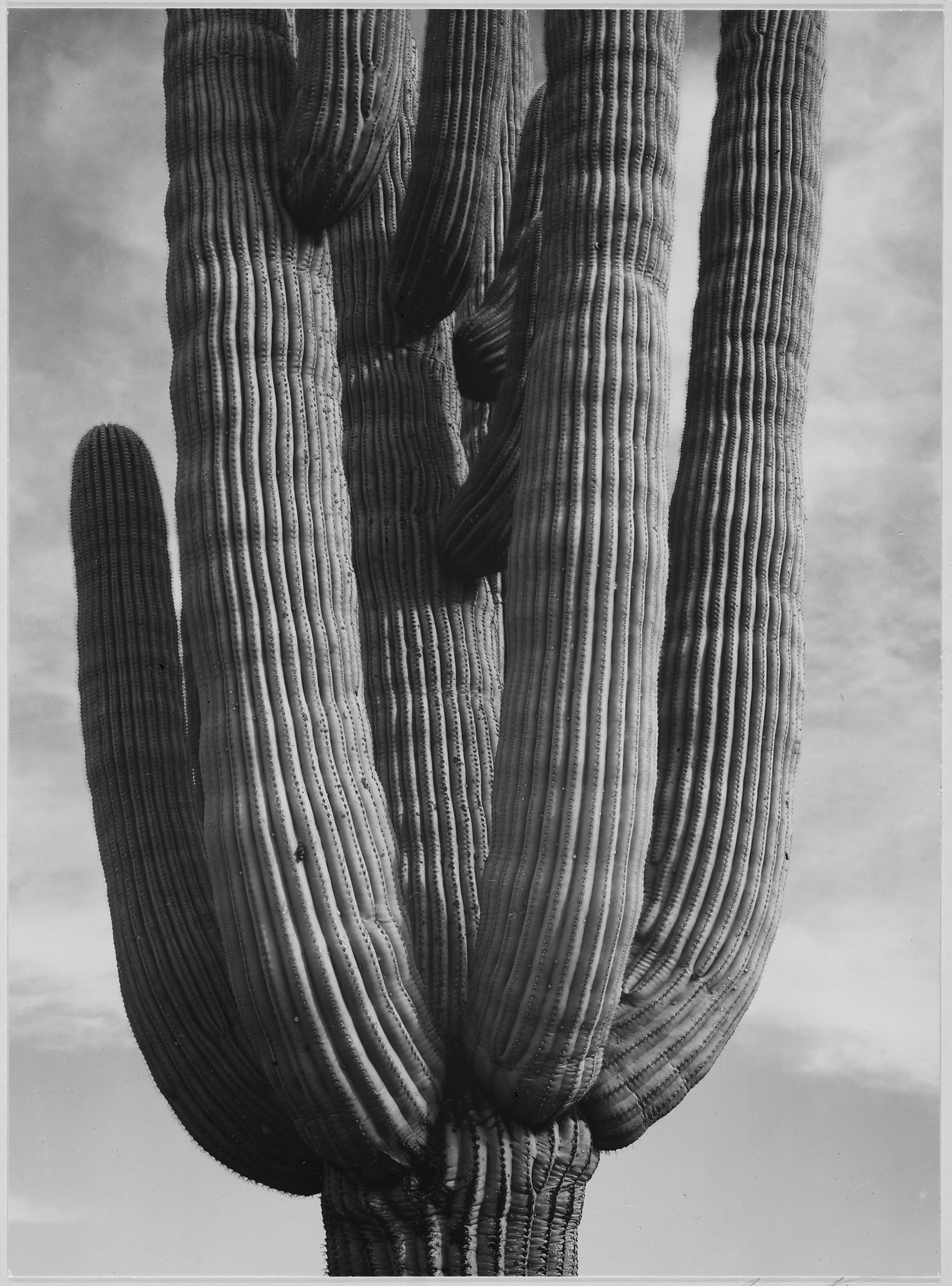 Detail of cactus "Saguaros, Saguro National Monument," Arizona. (Vertical Orientation); From the series Ansel Adams Photographs of National Parks and Monuments, compiled 1941 - 1942, documenting the period ca. 1933 - 1942.